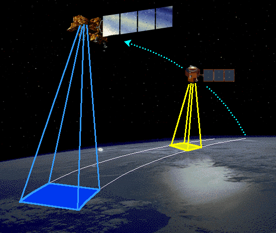 Landsat7 and EO-1 trailing.